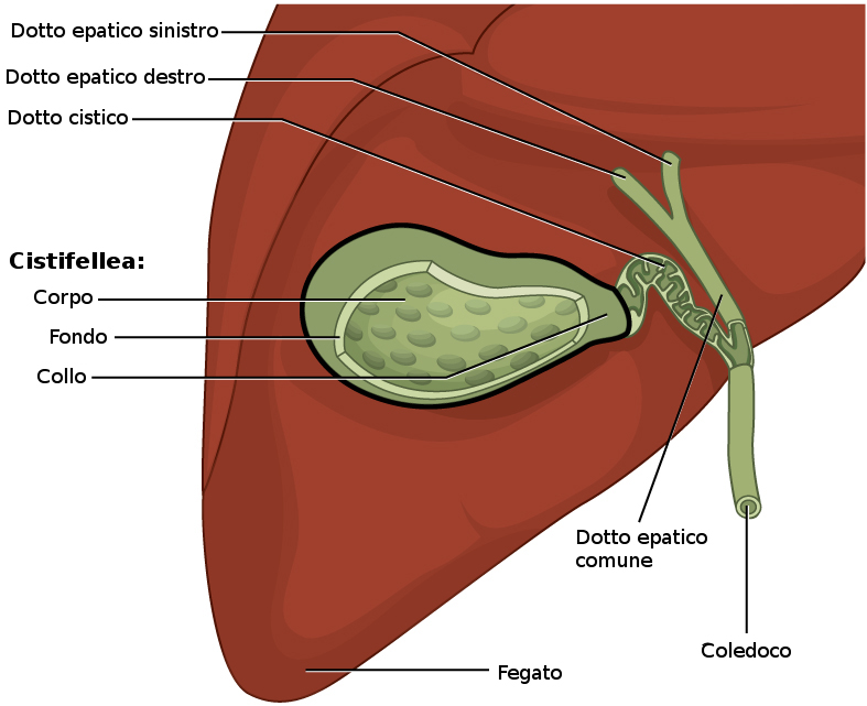 Illustration from Anatomy & Physiology, Connexions Web site. Jun 19, 2013.